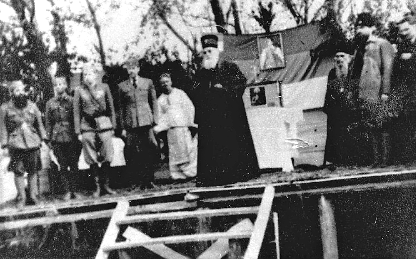 Milan Cvjetićanin, Commander of the Bosnian Chetnik Corps "Gavrilo Princip", General Miodrag Damjanovic, Patriarch Gavrilo, Bishop Nikolaj, Duke Đujić and Dimitrije Ljotic in Slovenia 1945.